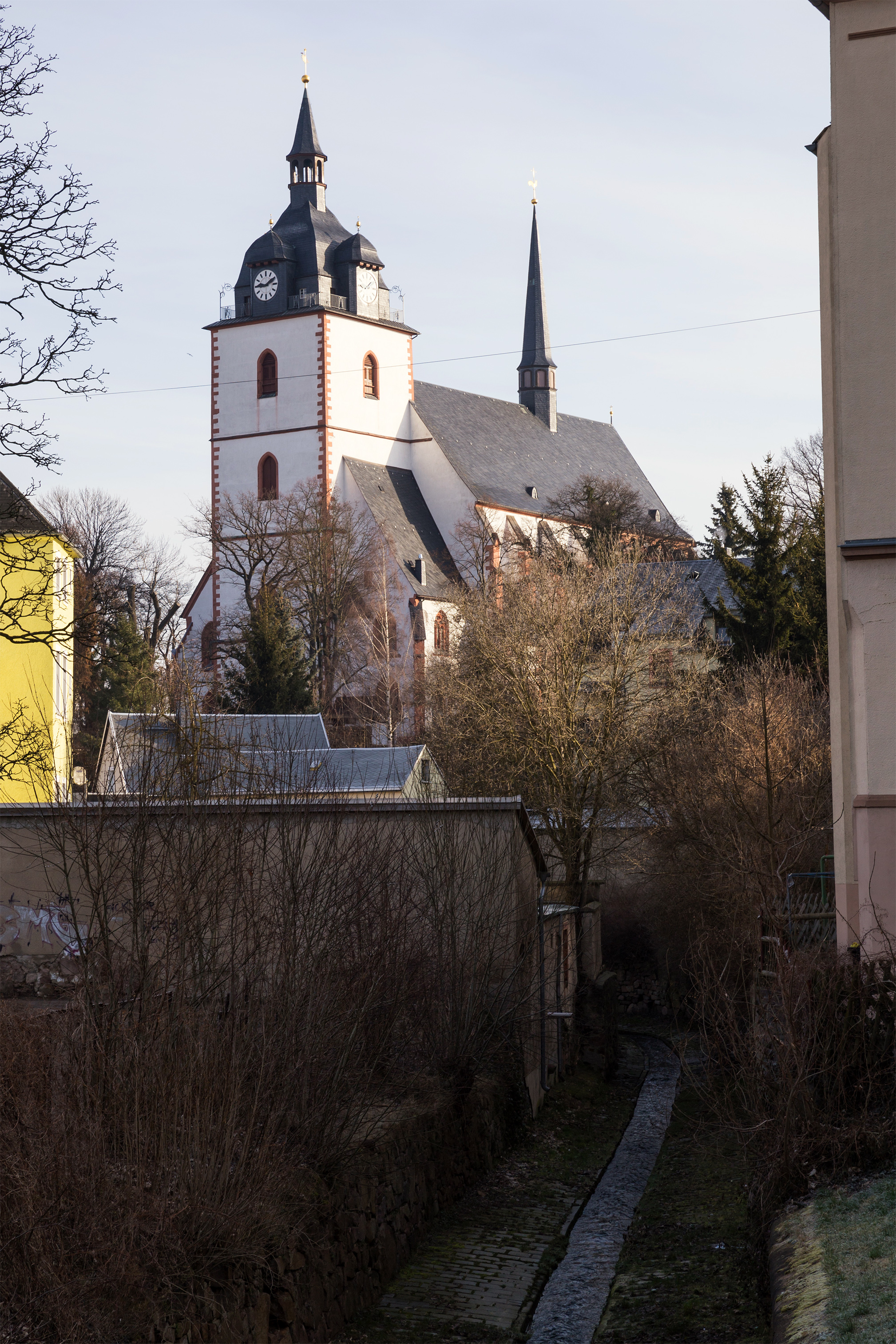 Mittweida, view onto the church (Stadtkirche Unser lieben Frauen)